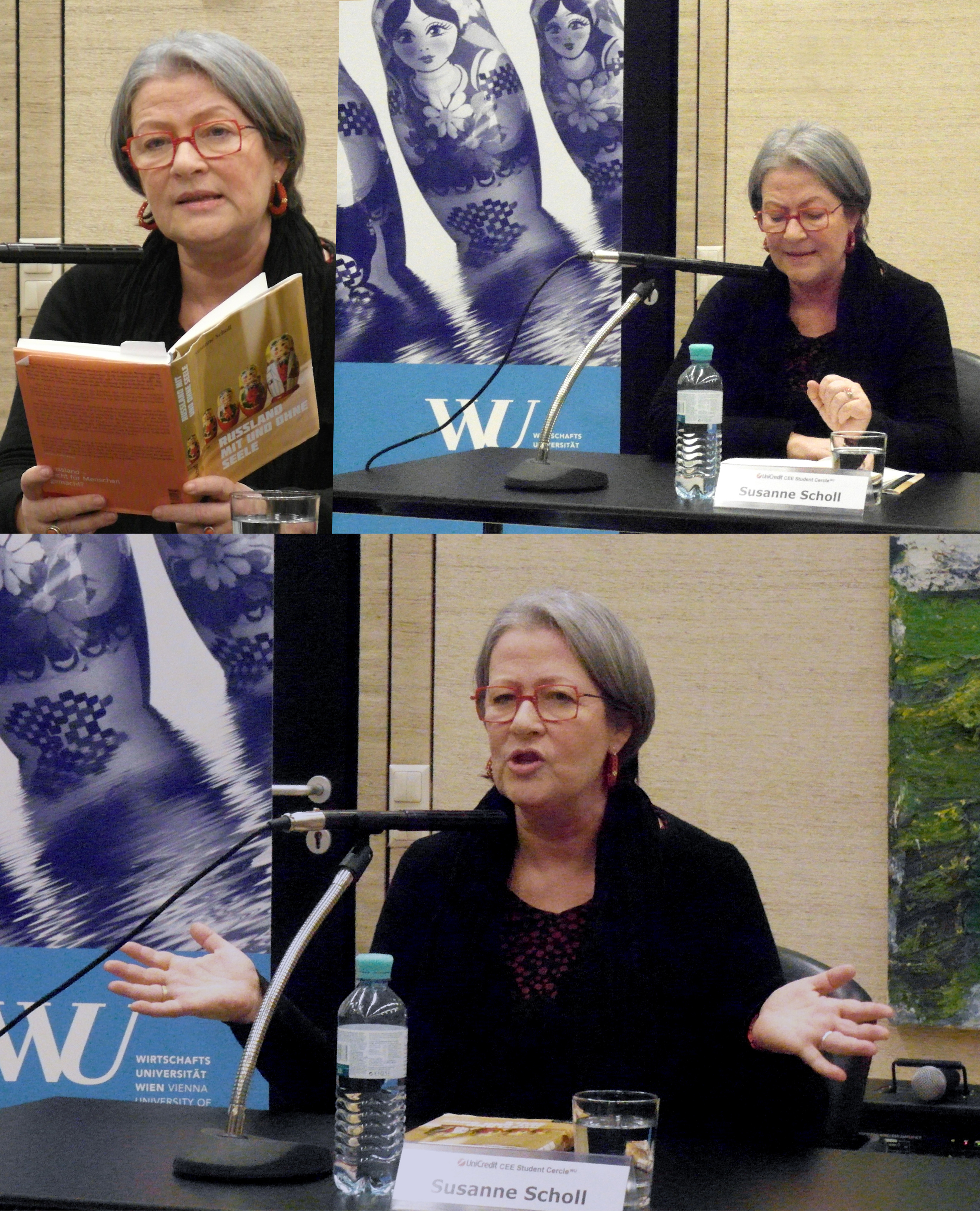 Austrian journalist 'Susanne Scholl' reading from her recent book 'Russland mit und ohne Seele' (German version only, as of 2011-01). S. Scholl is Austria's expert journalist on Eastern Europe and had settled in Moscow, as well as travelled troughout Russia, for quite a while, being the foreign correspondent of ORF.